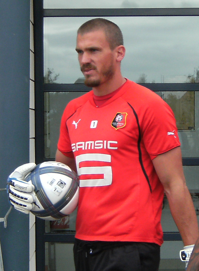 Nicolas Douchez before a friendly game between Stade rennais FC and Stade Malherbe de Caen in Ouistreham